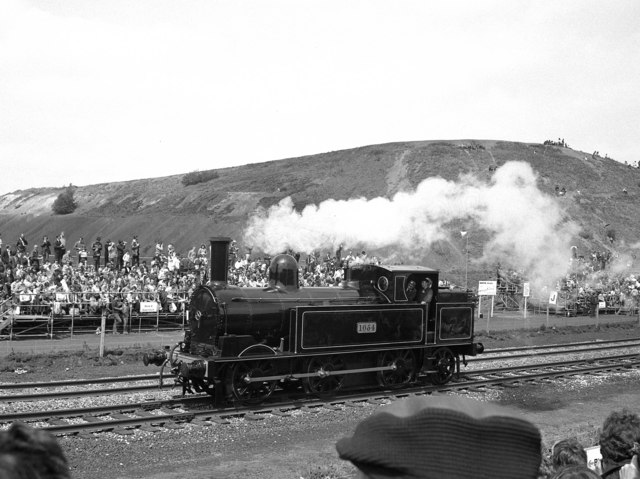 Locomotive Parade, Rainhill 1980: Webb 'Coal Tank'